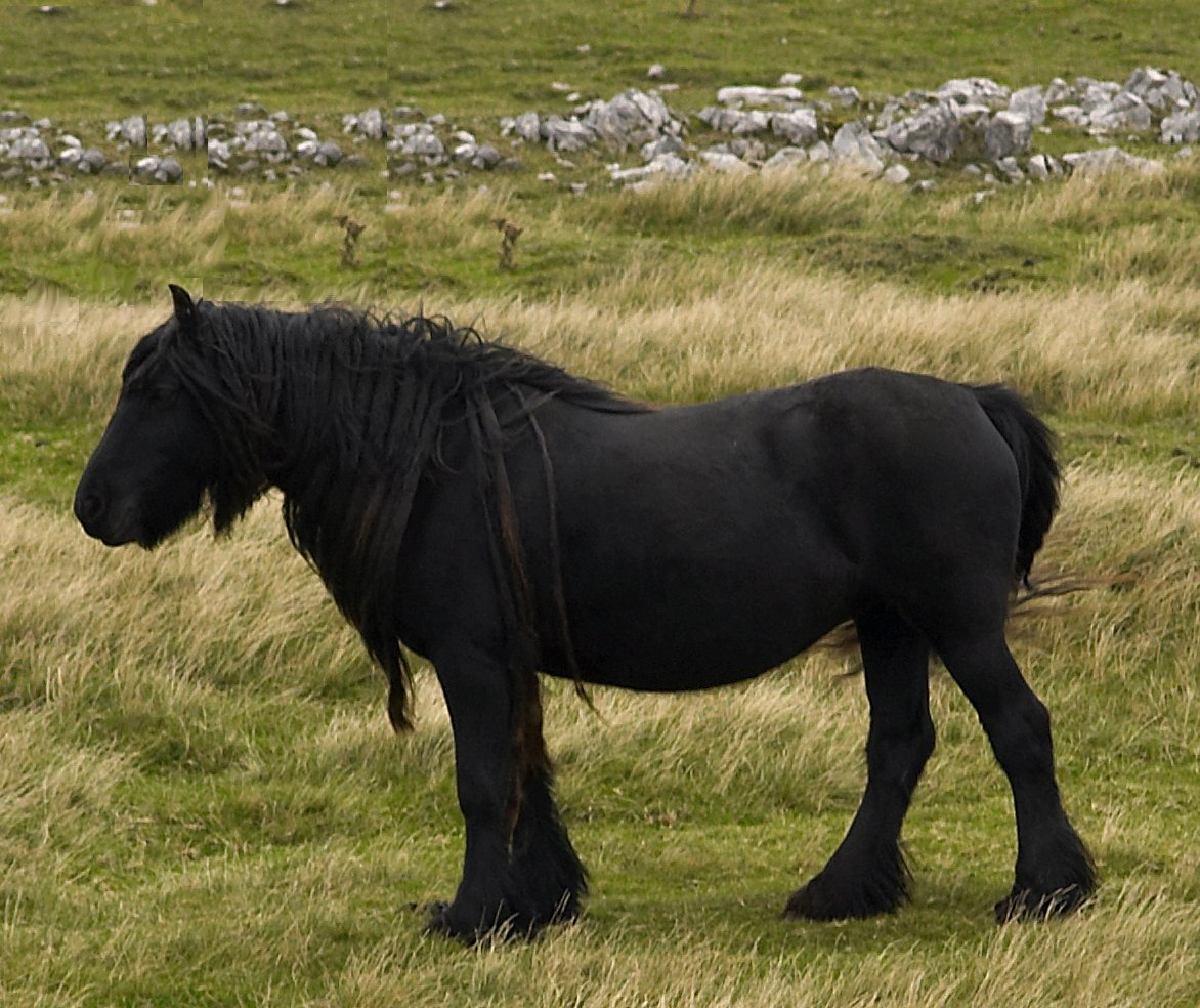 Dales Pony, Wild Boar Fell, Cumbria, England